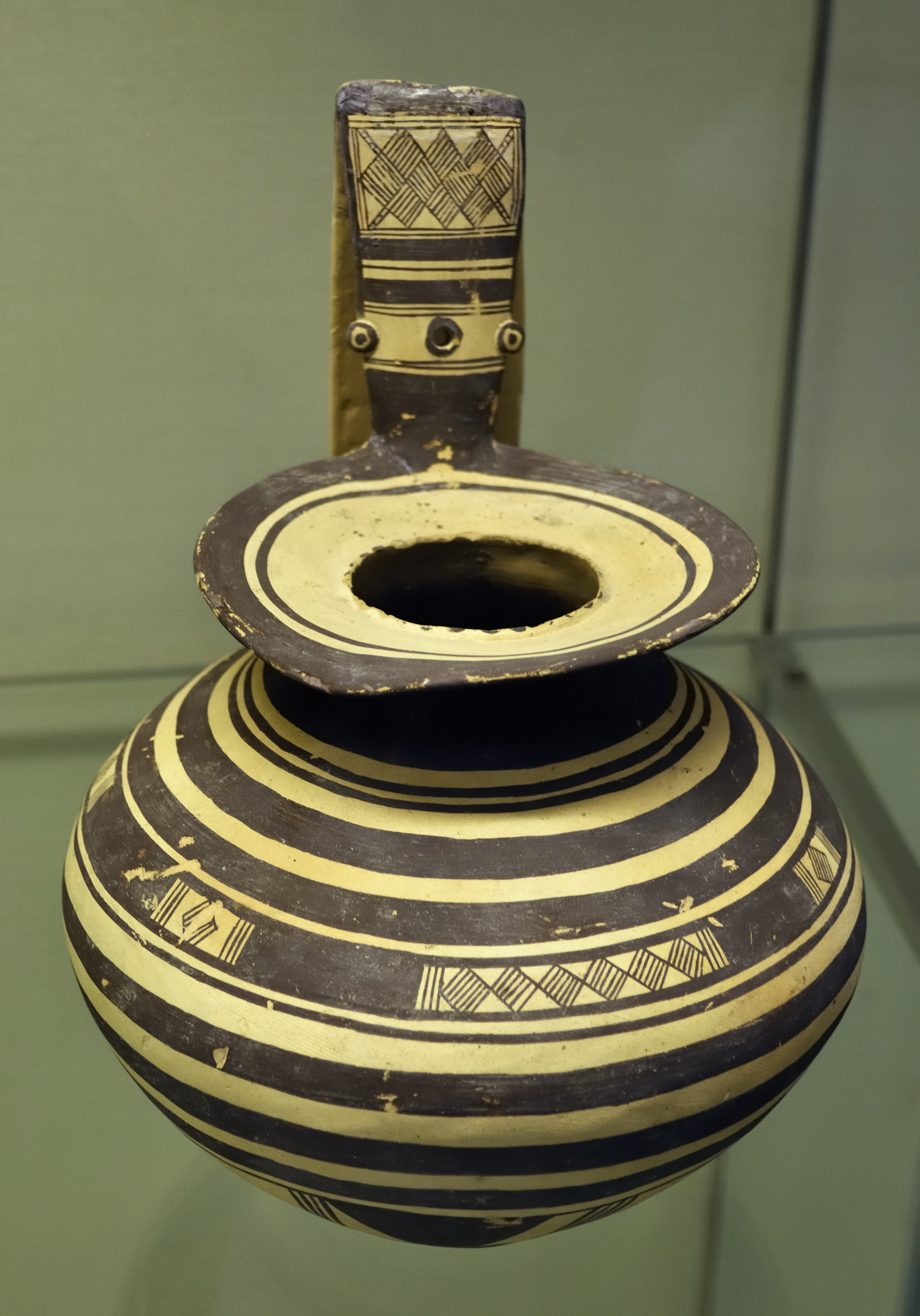 Picture taken in Hetjens-Museum Düsseldorf before Duisburg summer meetup 2010.